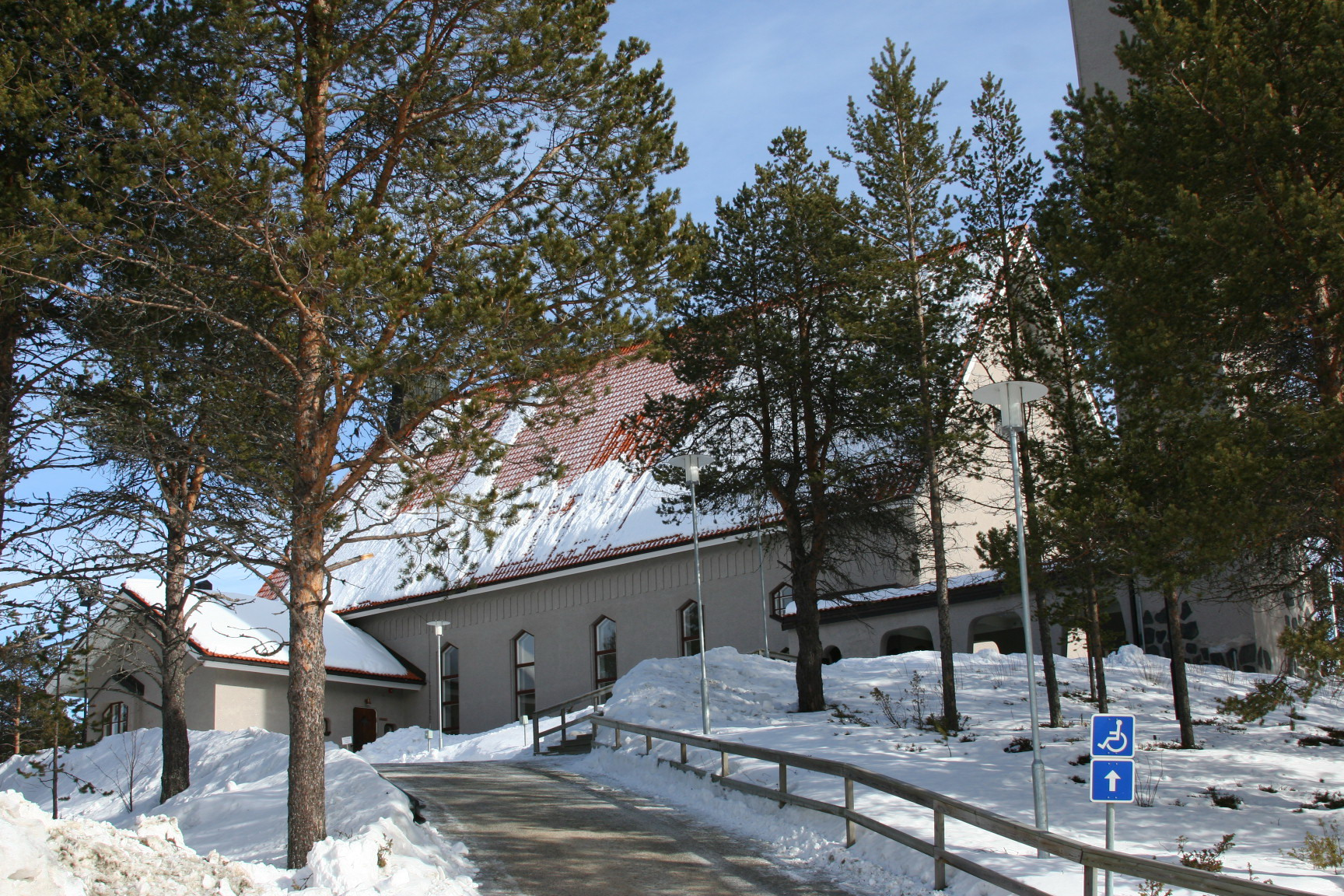 Enontekiö church, Hetta, Enontekiö, Finland. Seen from west. Architect Veikko Larkas, completed 1952.